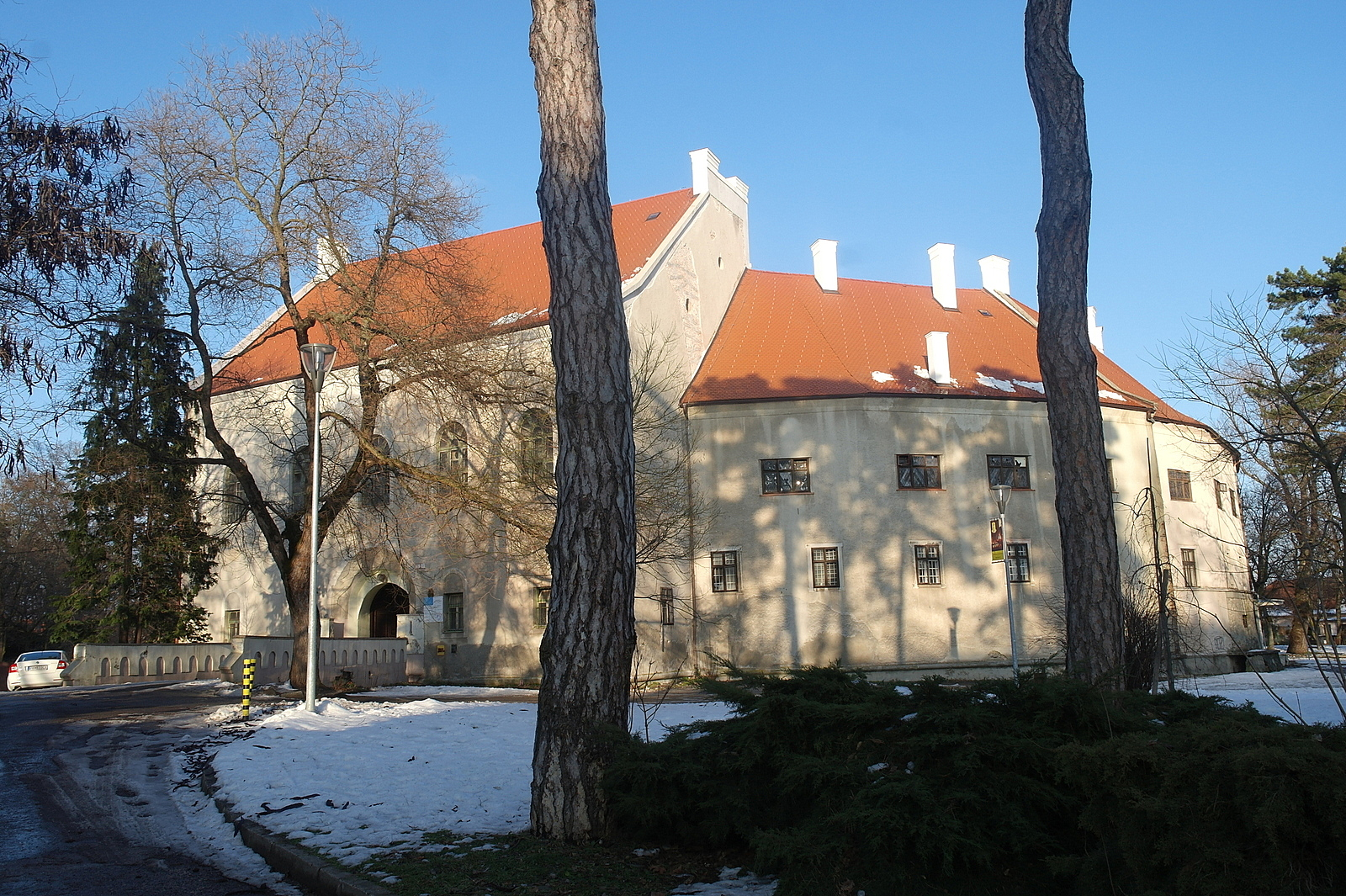 Manor house (also called Pezinok Castel), Mladoboleslavská str. 5, Pezinok.